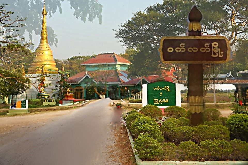 ဝက္လက္ၿမိဳ႕